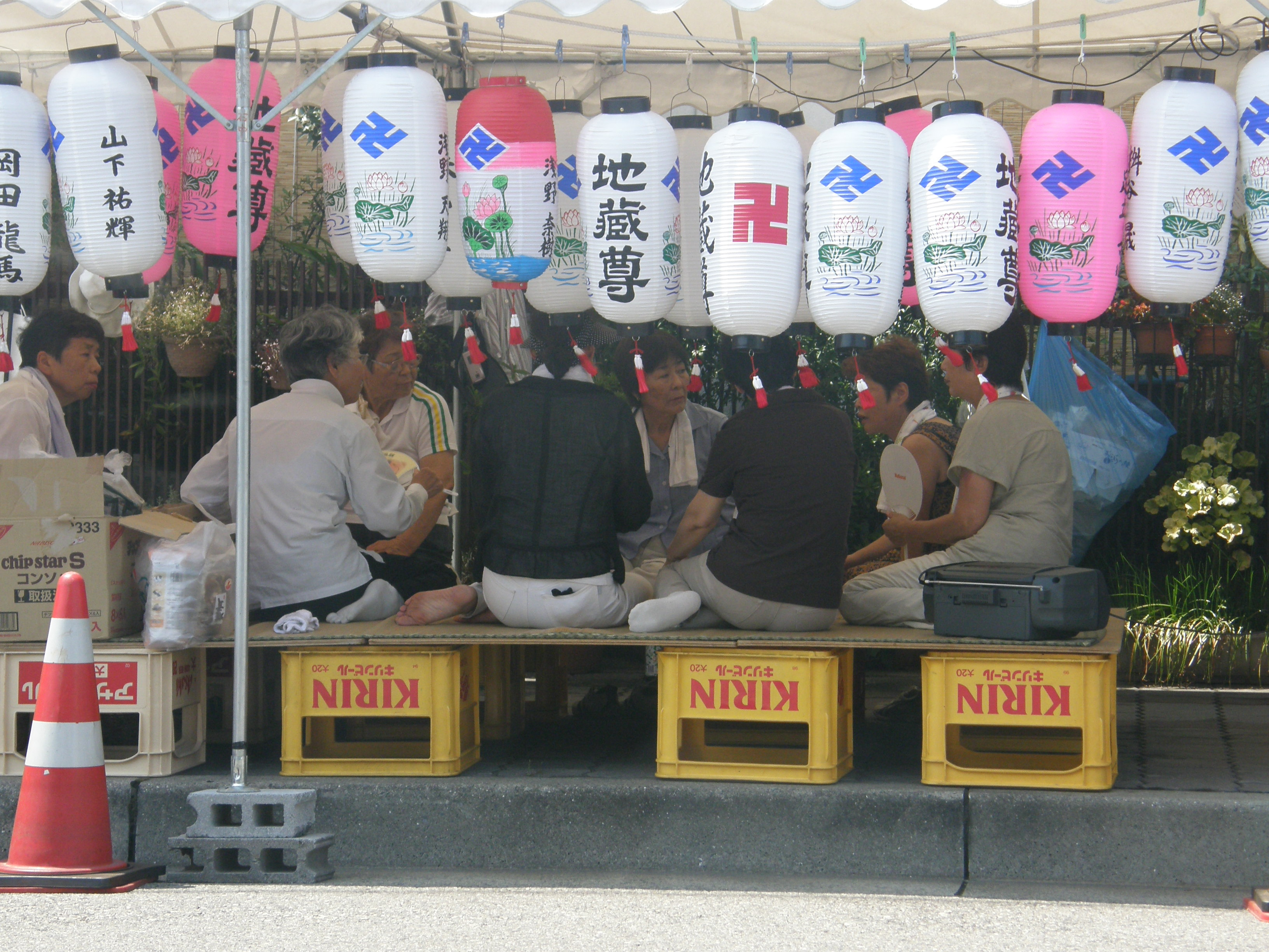 Jizōbon